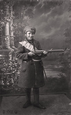 Female Red Guard member Hilja Eskelinen who fought in Finnish Civil War in the Viipuri Womens' Company of the Red Guard, alongside with 150 other women.